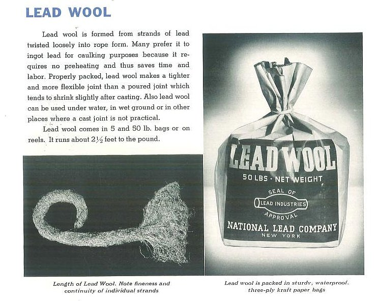 Screen capture showing lead wood, loose and bagged. Taken from a trade catalogue in the link shown.